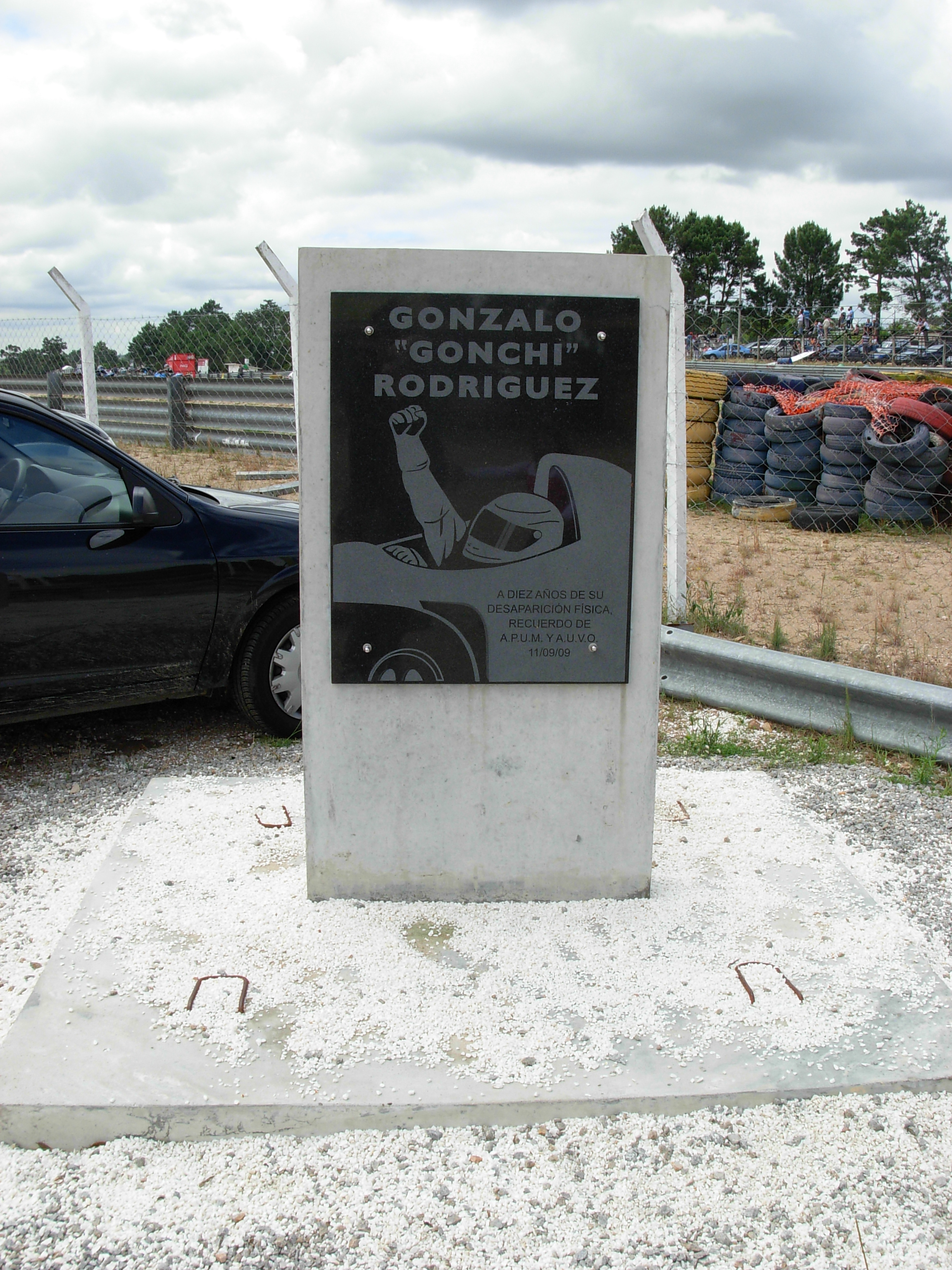 Gonzalo Rodríguez monument at the Autódromo Víctor Borrat Fabini in El Pinar, Uruguay, pictured at the 2011 Mercosur Superbikes Cup.